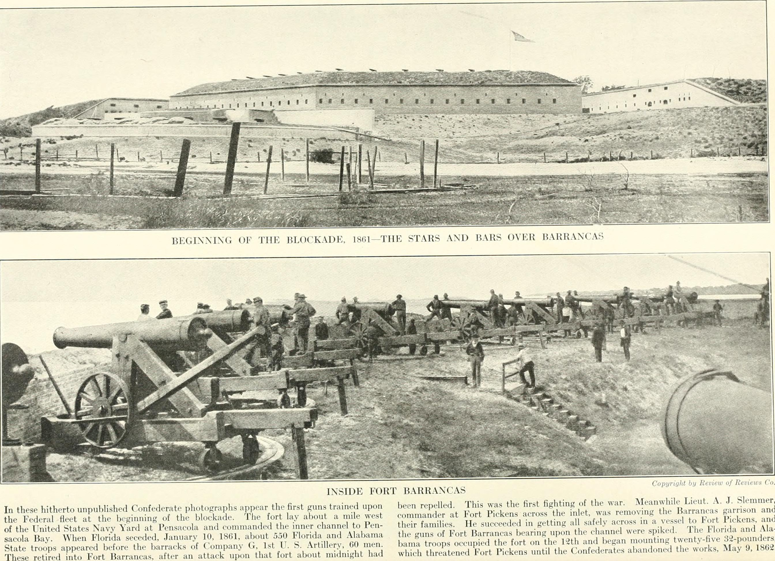 Title: The photographic history of the Civil War : thousands of scenes photographed 1861-65, with text by many special authorities Year: 1911 (1910s) Authors: Miller, Francis Trevelyan, 1877-1959 Lanier, Robert S. (Robert Sampson), 1880- Subjects: United States -- History Civil War, 1861-1865 Pictorial works United States -- History Civil War, 1861-1865 Publisher: New York : Review of Reviews Co. Text Appearing Before Image: THE SOUTHERN FLAG FLOATING OVER SUMTER ON APRIL 10, 1861—SOUTHCAROLINA TROOPS DRILLING ON THE PARADE, TWO DAYS AFTER FORCING OUT ANDERSON AND HIS FEDERAL GARRISON THE FLAG IS MOUNTED ON THE PARAPET TO THE RIGHT OF THE FORMER FLAGSTAFF, WHICH HAS BEENSHATTERED IN THJ) COURSE OF THE BOMBARDMENT FROM CHARLESTON a^ c! fl -i: f ^£ C cfl T3 S - i: o a c 3 cs —n w oj rt o _ (- o ct I, rt jj^^^ . &■£ i M« g-c-3^.g^c ^ 3 c ^^ O ! l fl -° S o - _t: 0; ^ — ^ ^ C- yj fi I F - e.i^-a —o^_^ ^ c •- ' o o ci = 0^^3005; P-0 Text Appearing After Image: (Slil